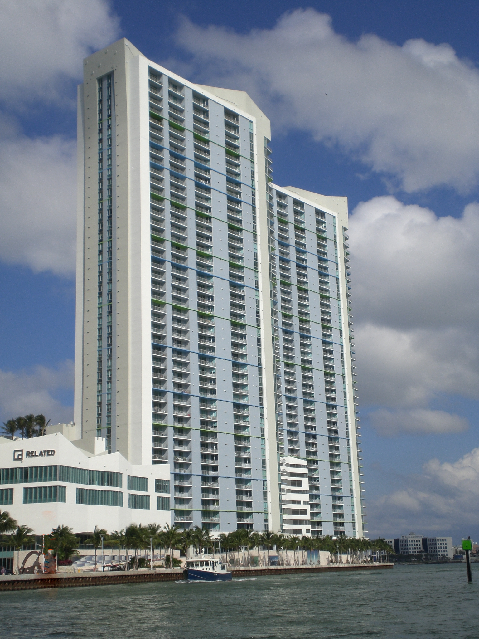 Digital photo taken by Marc Averette. One Miami towers at mouth of the Miami River.